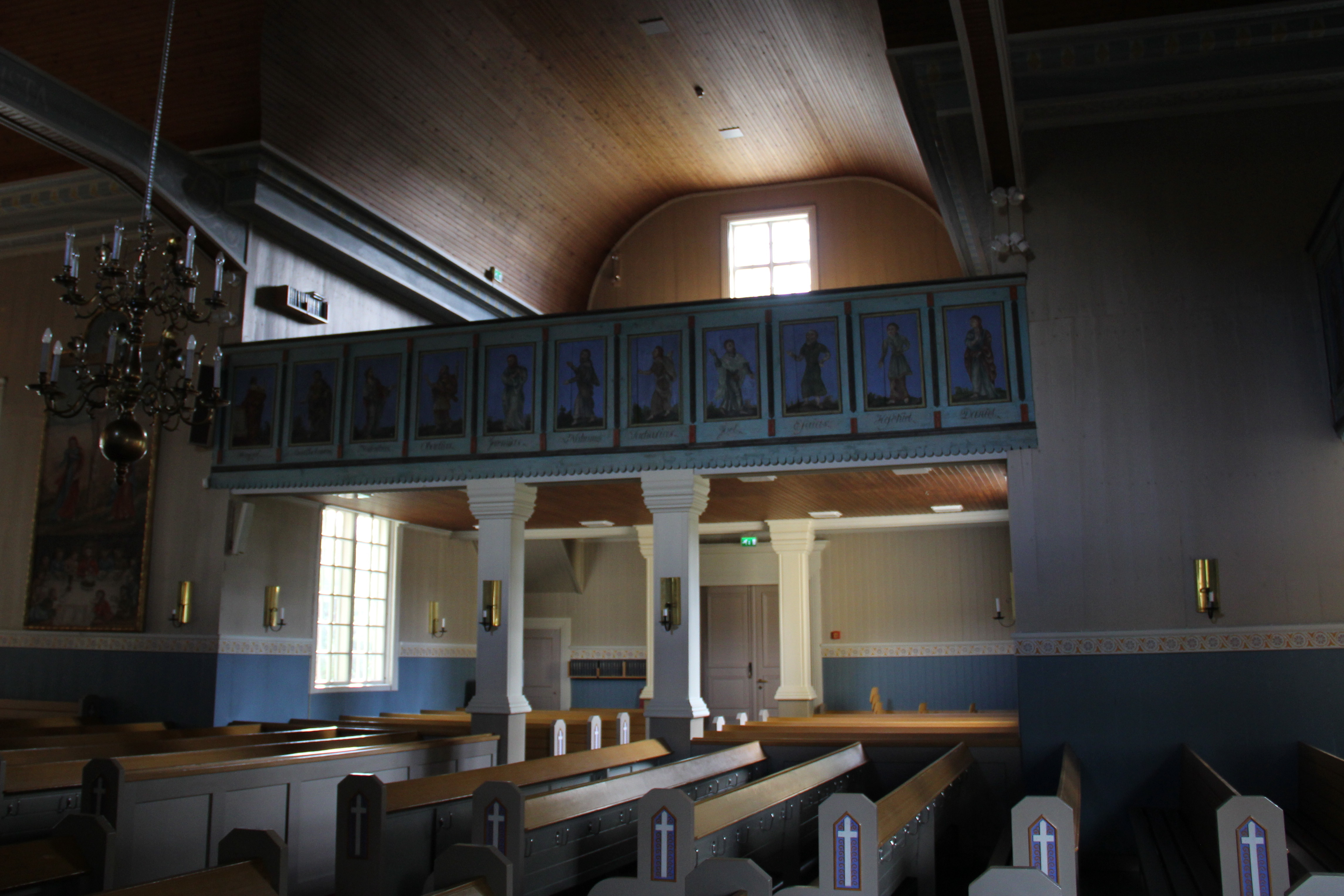 Tarvasjoki church, Tarvasjoki, Finland. Completed in 1779, built by Mikael Piimänen. The interior was renovated in 1916, it was designed by architect Ilmari Launis and it looks almost the same nowadays. Southern gallery.